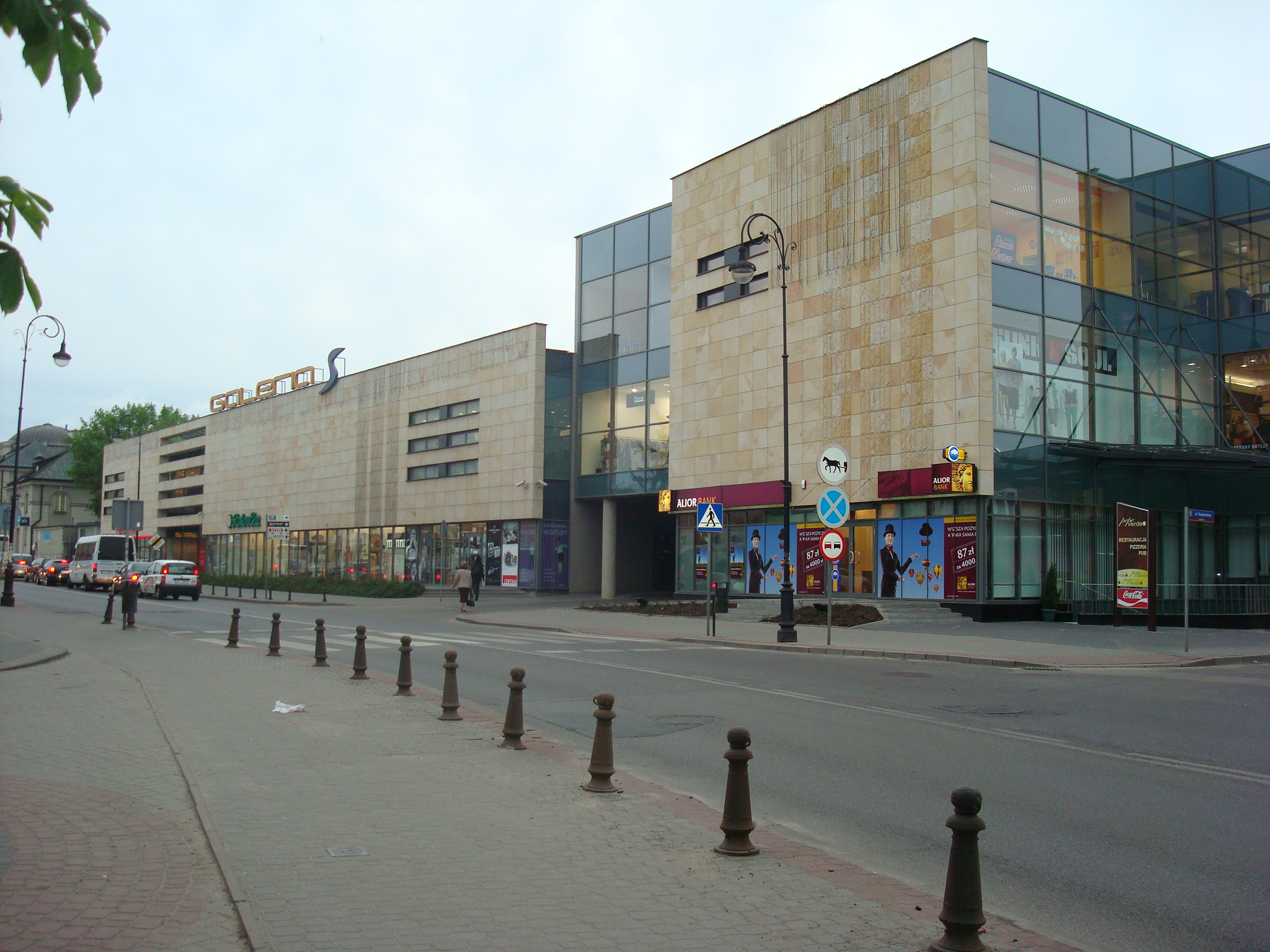 Galery "S" in Siedlce